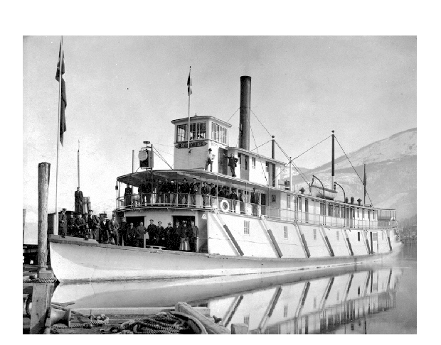 Photographer:Wadds Brothers Photo taken:1898 Source:A-00321 [1]